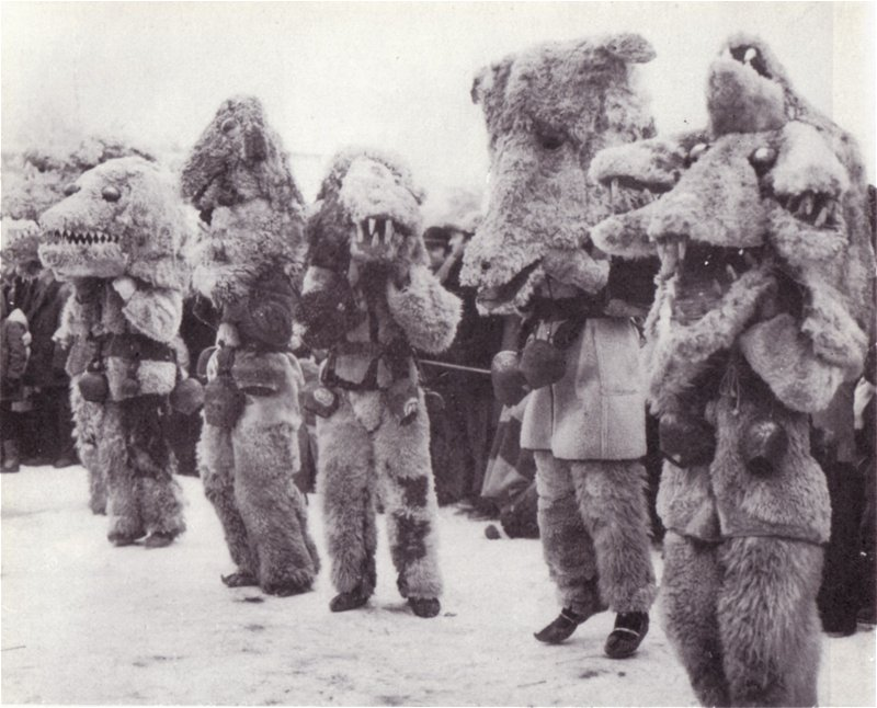 Kukeri masks from Pernik, Southwest Bulgaria